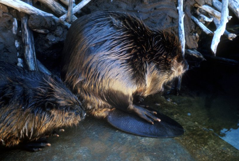 Original description: Title: Beaver Creator: Smylie, Tom Source: WO2156-21 Publisher: U.S. Fish and Wildlifer Service Contributor: DIVISION OF PUBLIC AFFAIRS